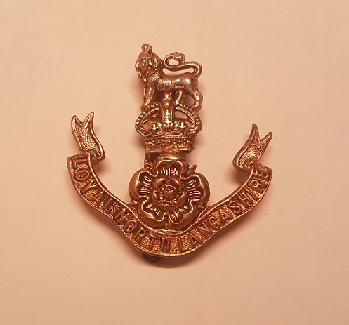 Photo of Loyal North Lancashire Regiment Cap Badge from personal collection